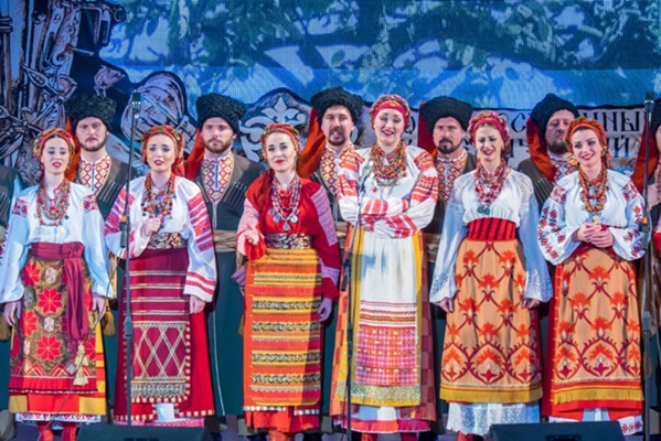 Performers of the Kuban Cossack choir during the concert